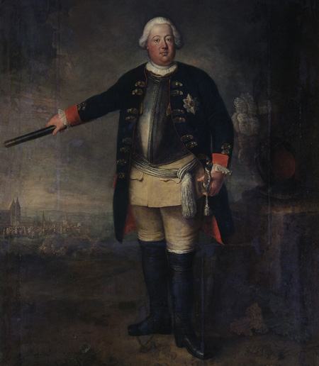 Portrait of Friedrich Wilhelm I of Prussia (1688-1740)